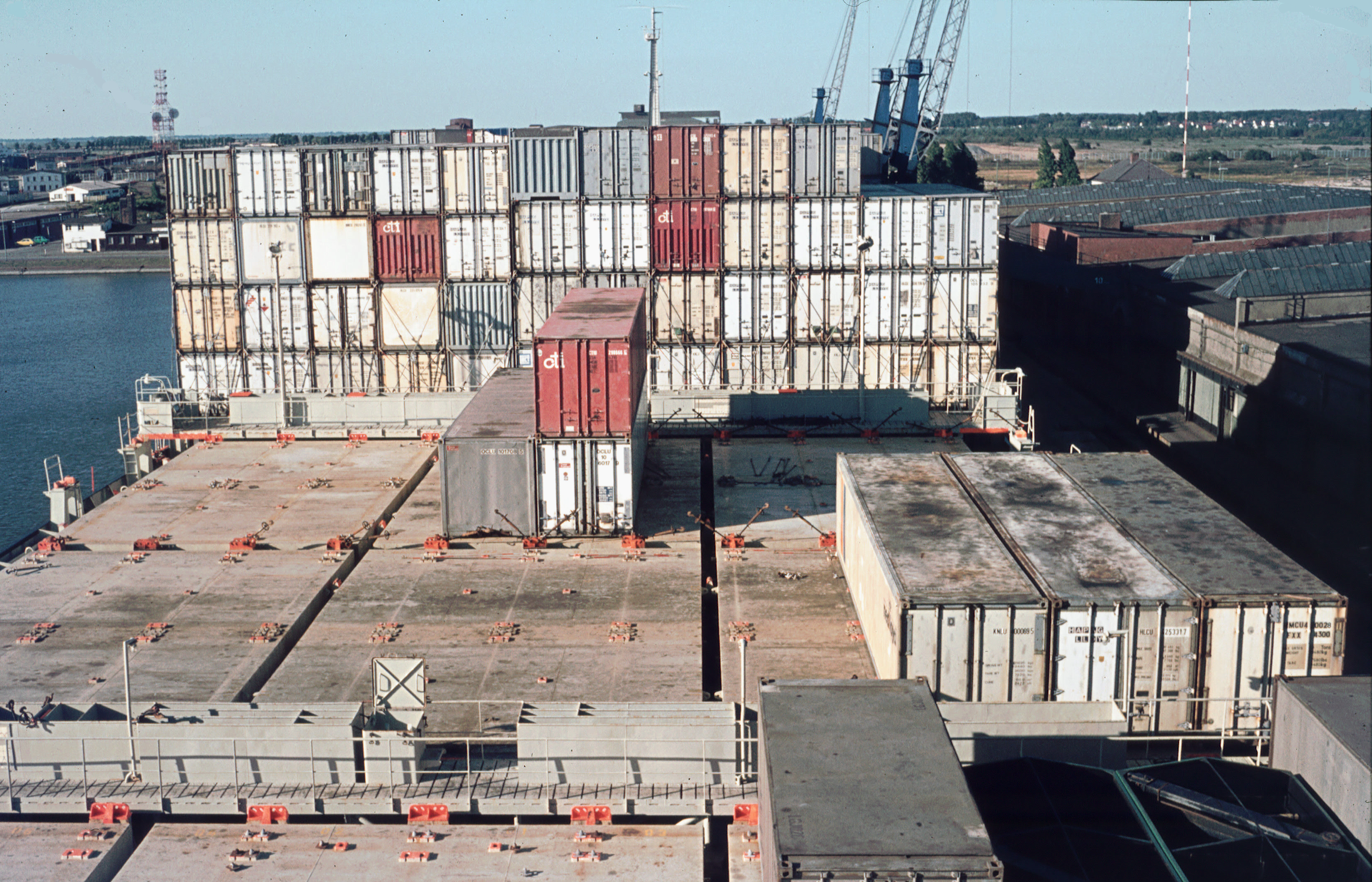 Foredeck of the german container ship Sydney Express - Marseille, Port of Fos-sur-Mer - 1976